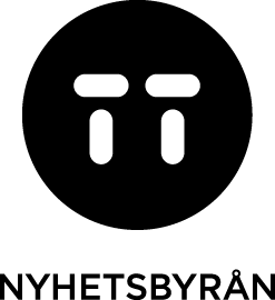 TT Nyhetsbyråns logotyp sedan 2013